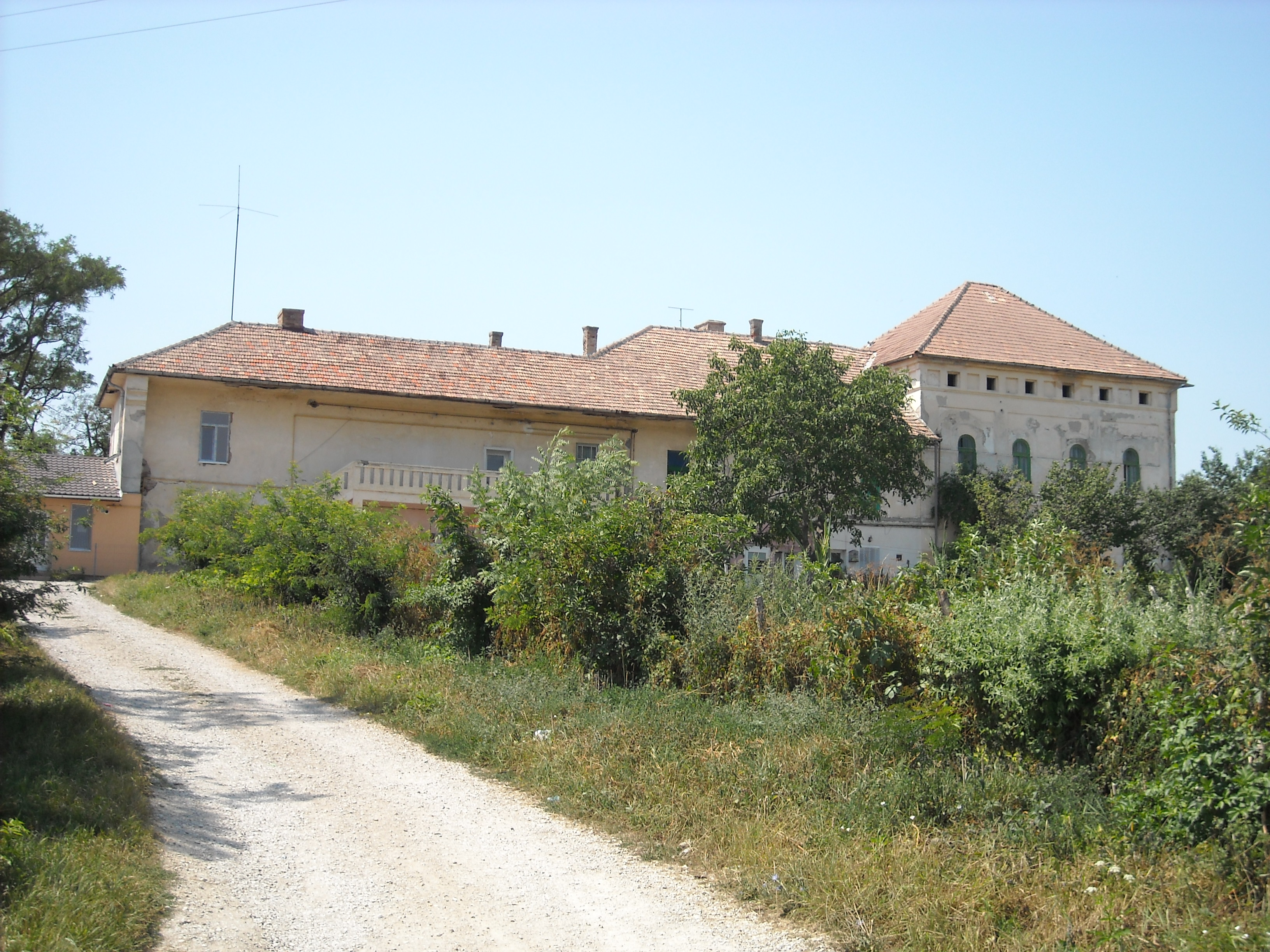 the former nobiliar mansion of the Bánffy family in Copăceni, Cluj County, Romania